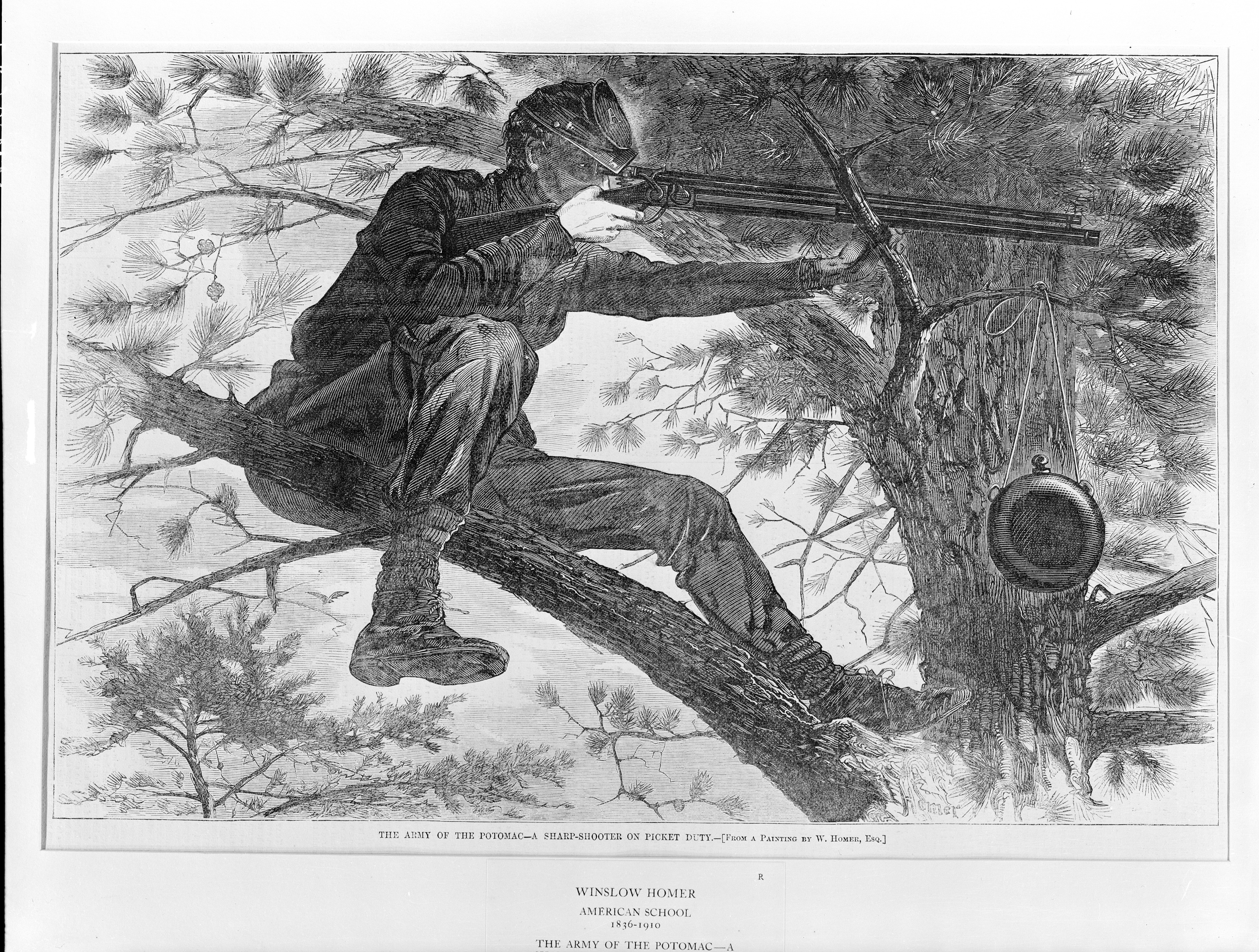 Print; Prints